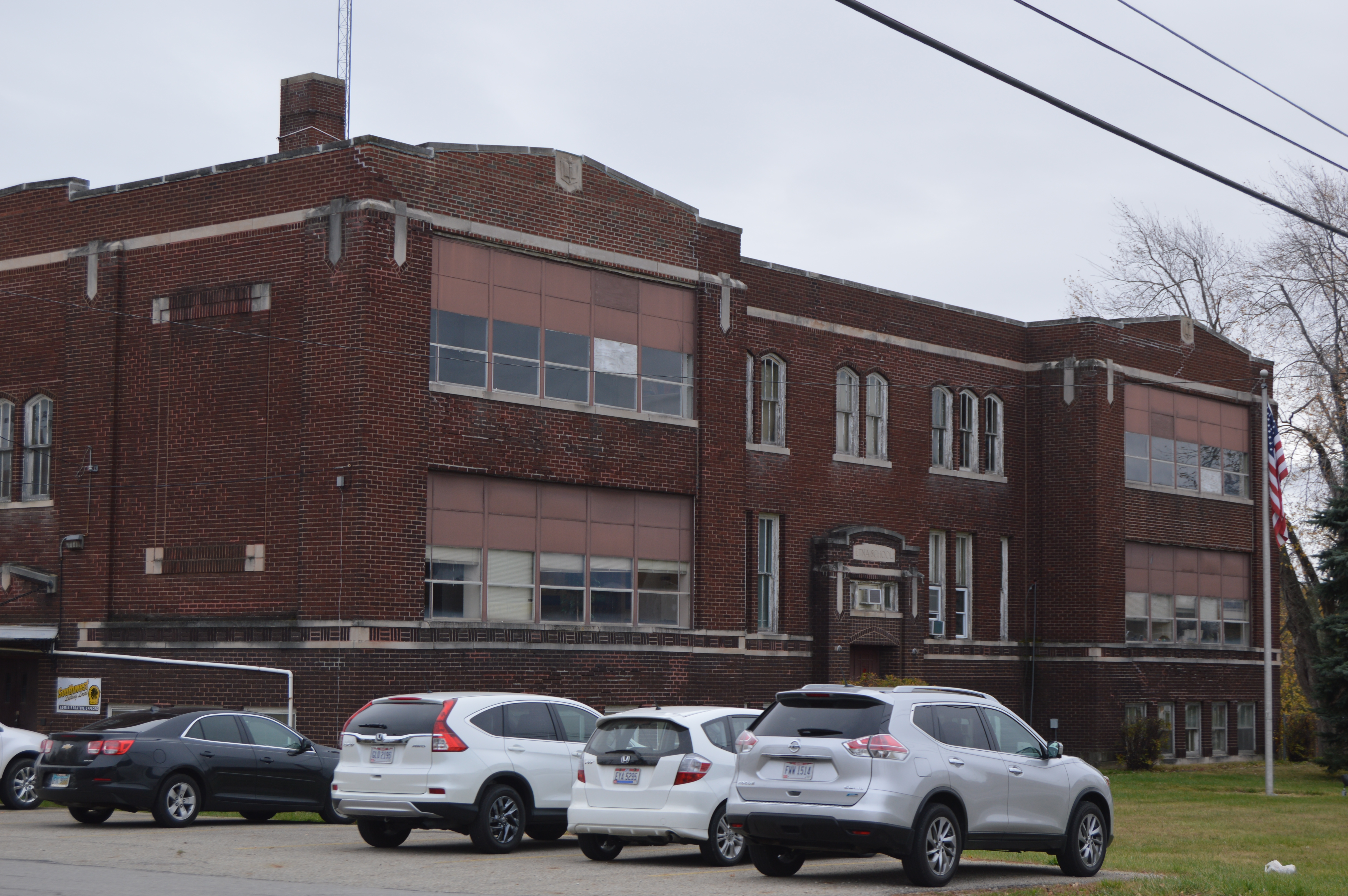 Front of the former Etna Township school (now offices for the Southwest Licking Local School District), located on the southeastern corner of the junction of Hazelton-Etna Road (State Route 310) and South Street in Etna, Ohio, United States.